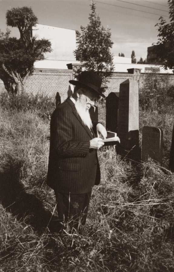 Asher J. Scharf in Jewish Cemetery in Bielsko-Biała (Poland)